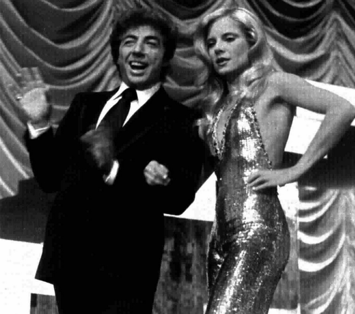 Gino Bramieri and Sylvie Vartan shooting an Italian TV show